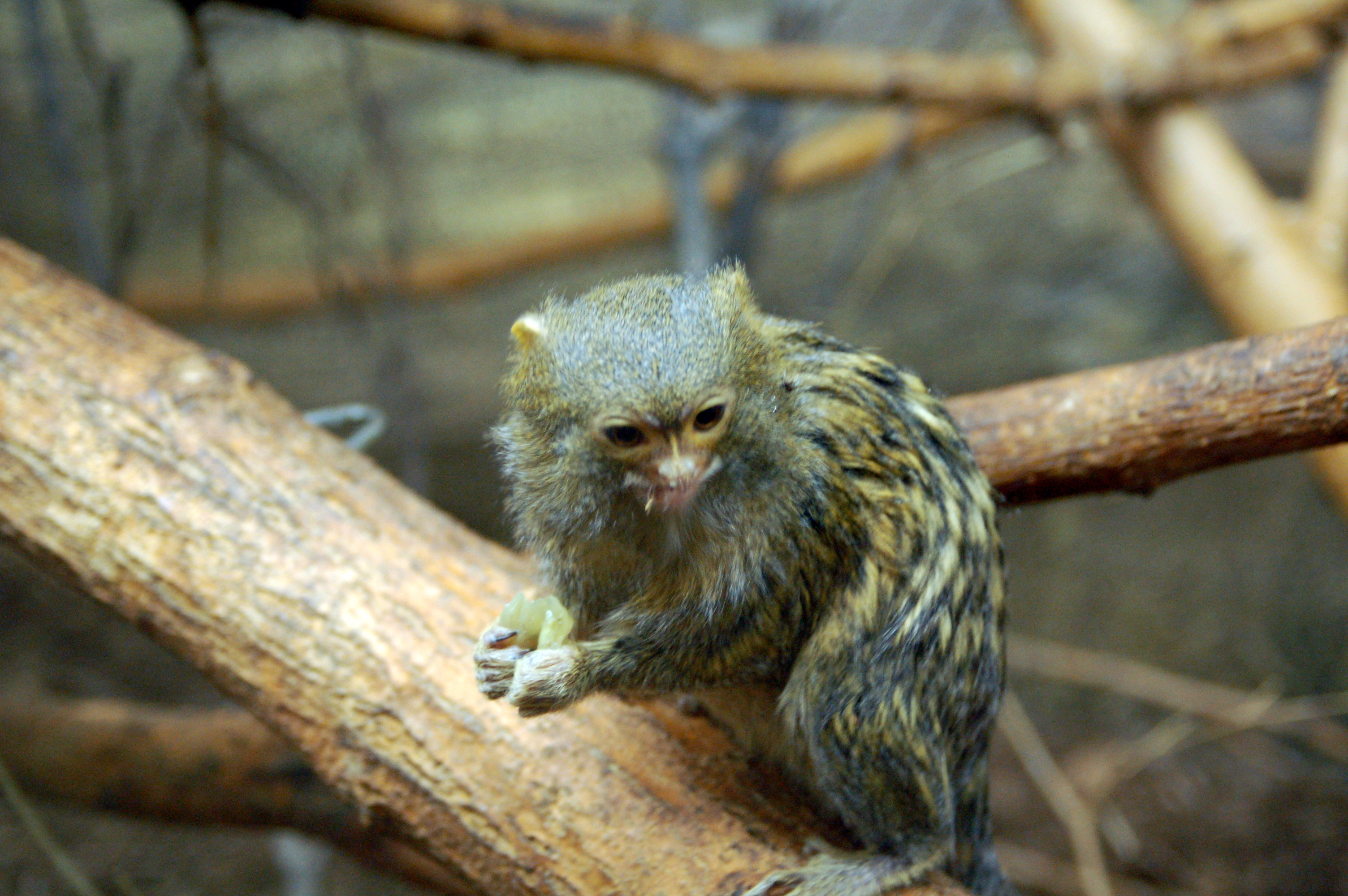 A Pygmy Marmoset in the small mammals exhibit at the Philadelphia Zoo.